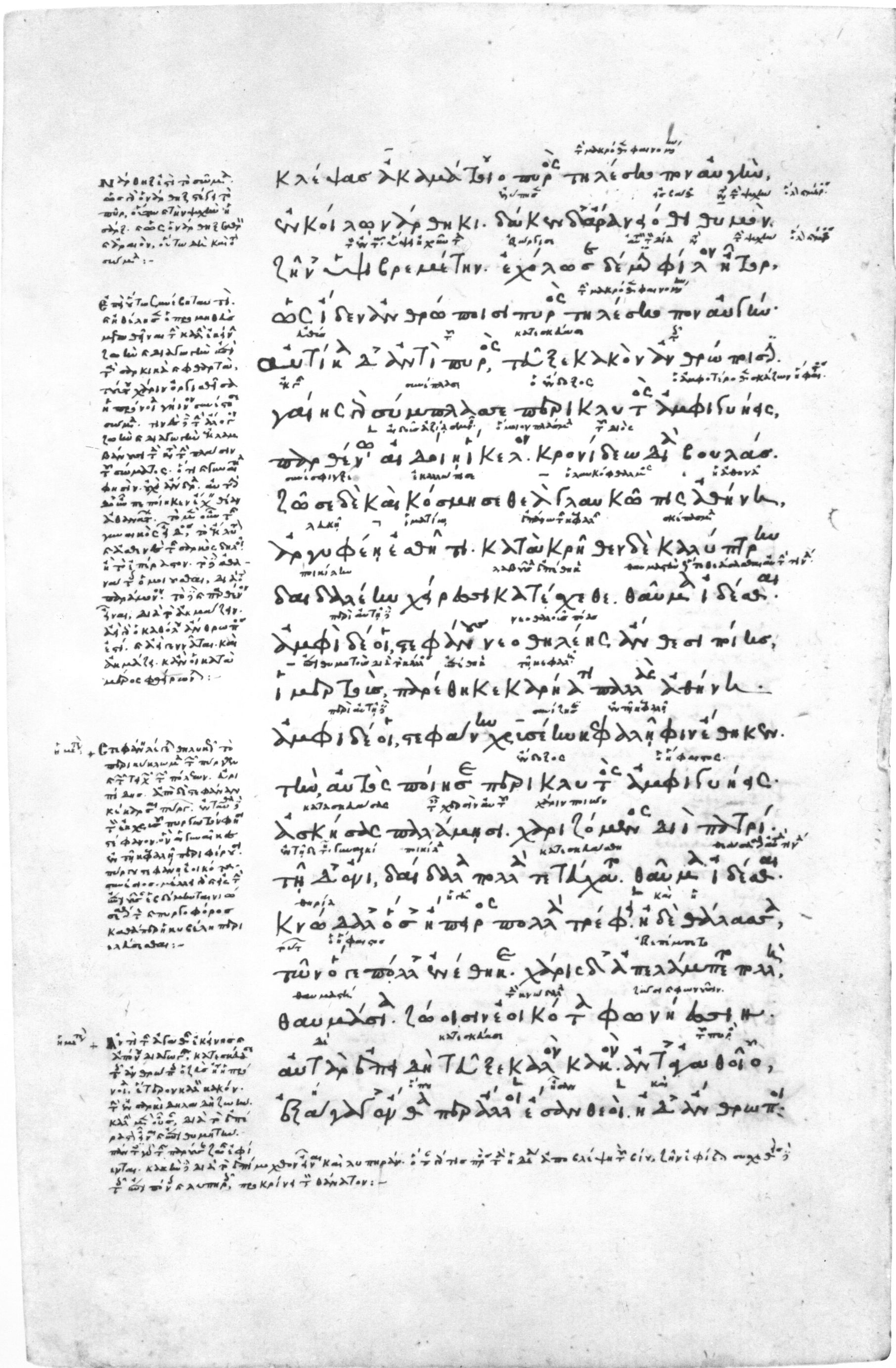 Hesiod, Theogony, with scholia, in ms. Venice, Biblioteca Marciana, Gr. 464, fol. 158v.